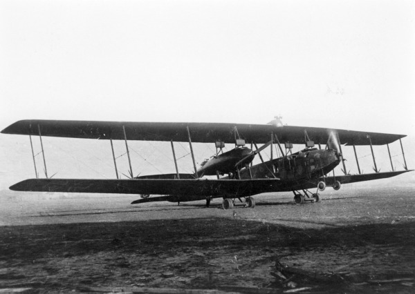 PictionID:43638854 - Catalog:16_004635 - Title:Zeppelin-Staaken R.V 13/15 5-engined Riesenflugzeug bomber shown testing engines in 1918 Pete Bowers photo - Filename:16_004635.TIF - - - - - - - Image from the Ray Wagner Collection. Ray Wagner was Archivist at the San Diego Air and Space Museum for several years and is an author of several books on aviation --- ---Please Tag these images so that the information can be permanently stored with the digital file.---Repository: San Diego Air and Space Museum